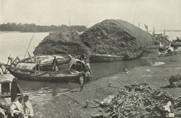 The scenery along the banks of the Hughli varies considerably. From the sea nothing but sandbanks and mud formations covered with coarse herbage at first greet the eye, then as the river narrows, cultivated rice fields and sleepy hamlets reposing within the foliage of beautiful groves, render the view at once pleasing and picturesque.